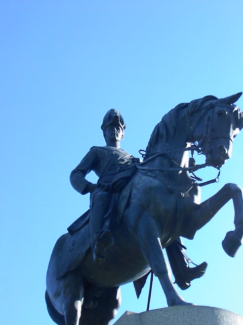 Statue of John Hope, 1st Marquess of Linlithgow ("Lord Linlithgow", "Marquess Linlithgow") in Kings Domain, Melbourne.